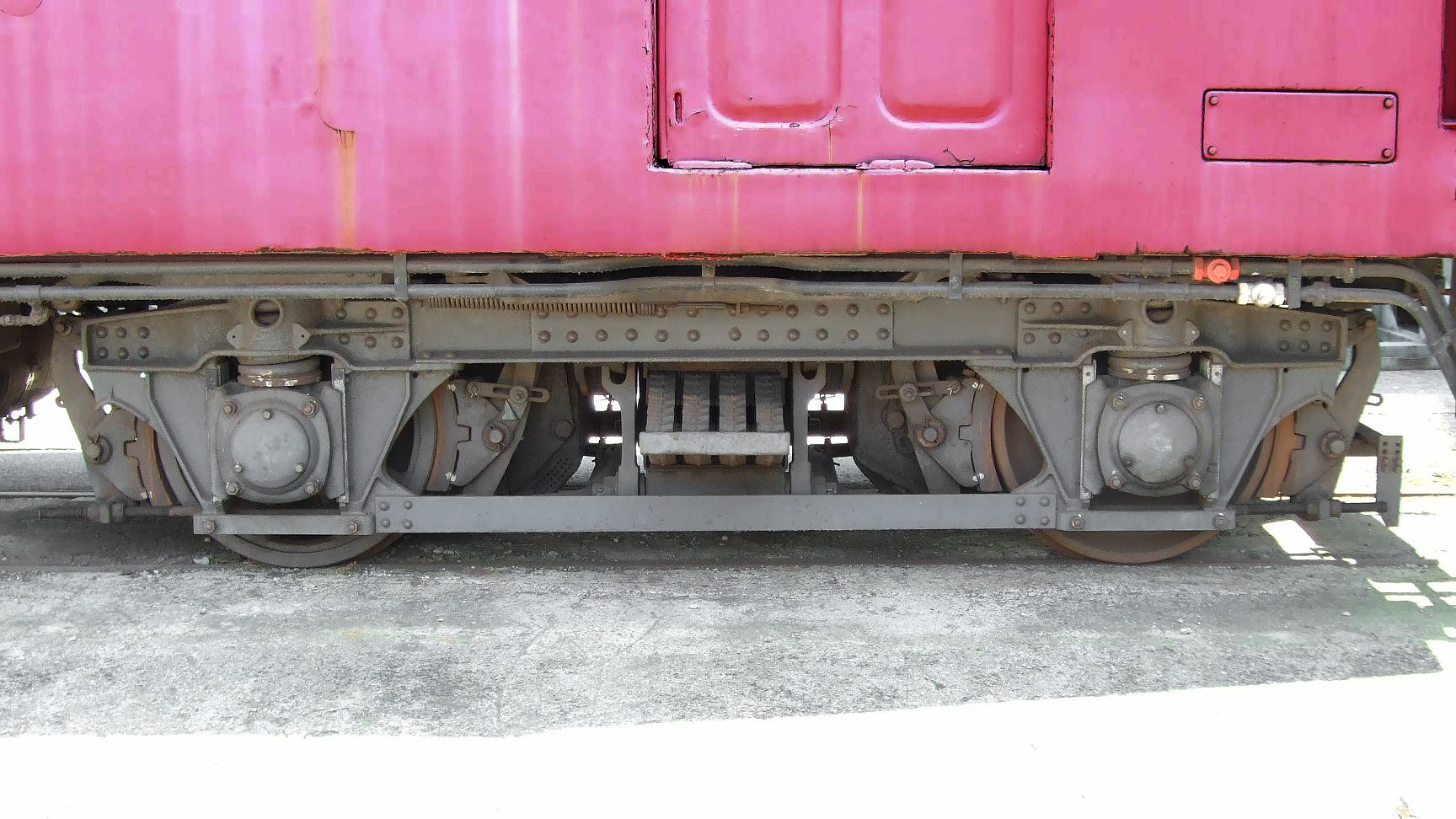 Japanese National Railways bogie truck typeDT13.